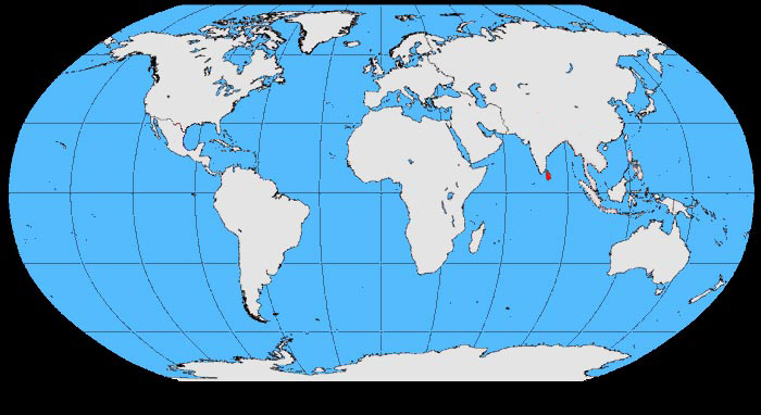 Gallus lafayetii distribution